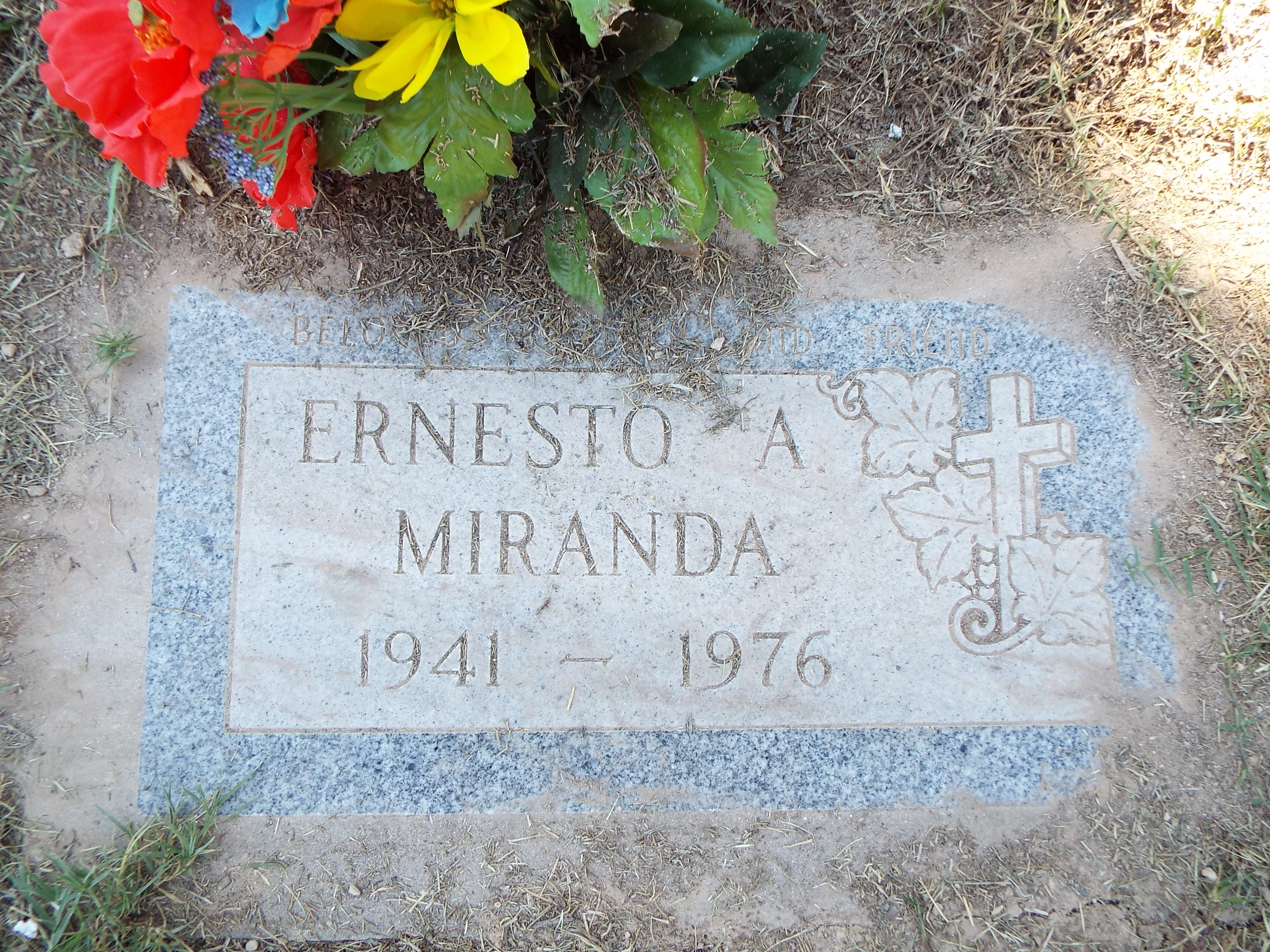 Ernesto Arturo Miranda (1941-1976) Miranda was a laborer whose conviction on kidnapping, rape, and armed robbery charges based on his confession under police interrogation was set aside in the landmark U.S. Supreme Court case (Miranda v. Arizona), which ruled that criminal suspects must be informed of their right against self-incrimination and their right to consult with an attorney before being questioned by police. This warning is known as the Miranda Rights.